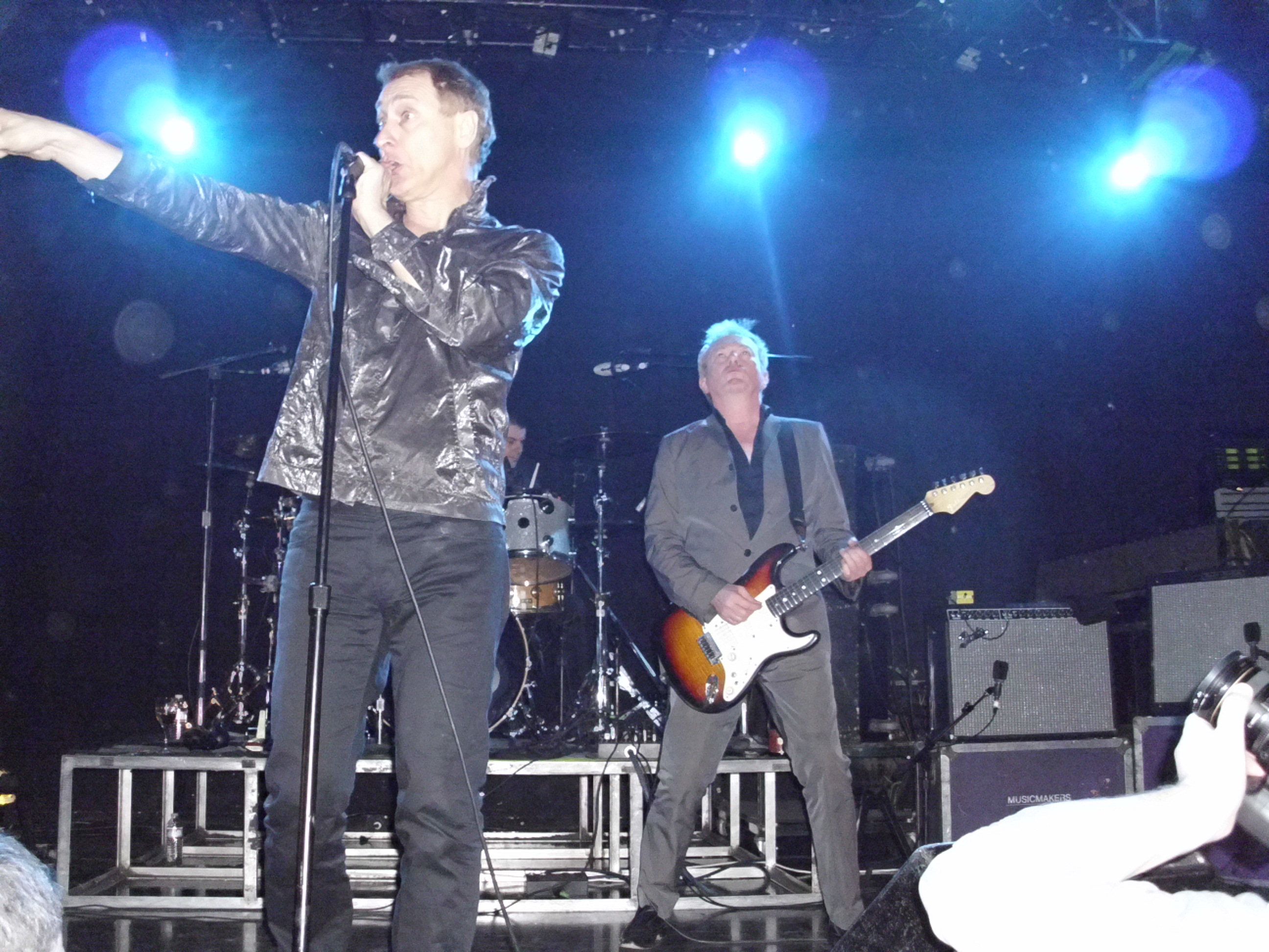 Depicted people: Jon King and Andy Gill – of the band Gang of Four at the Metro Chicago 2011-02-11